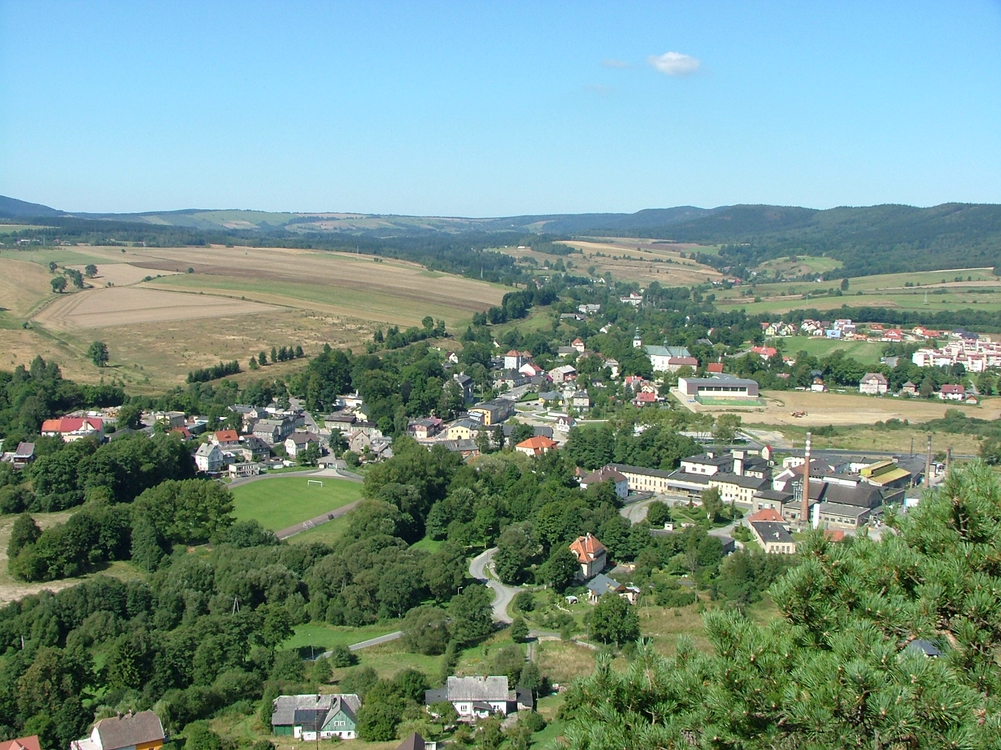 Panorama of Szczytna from Lesna Castle.